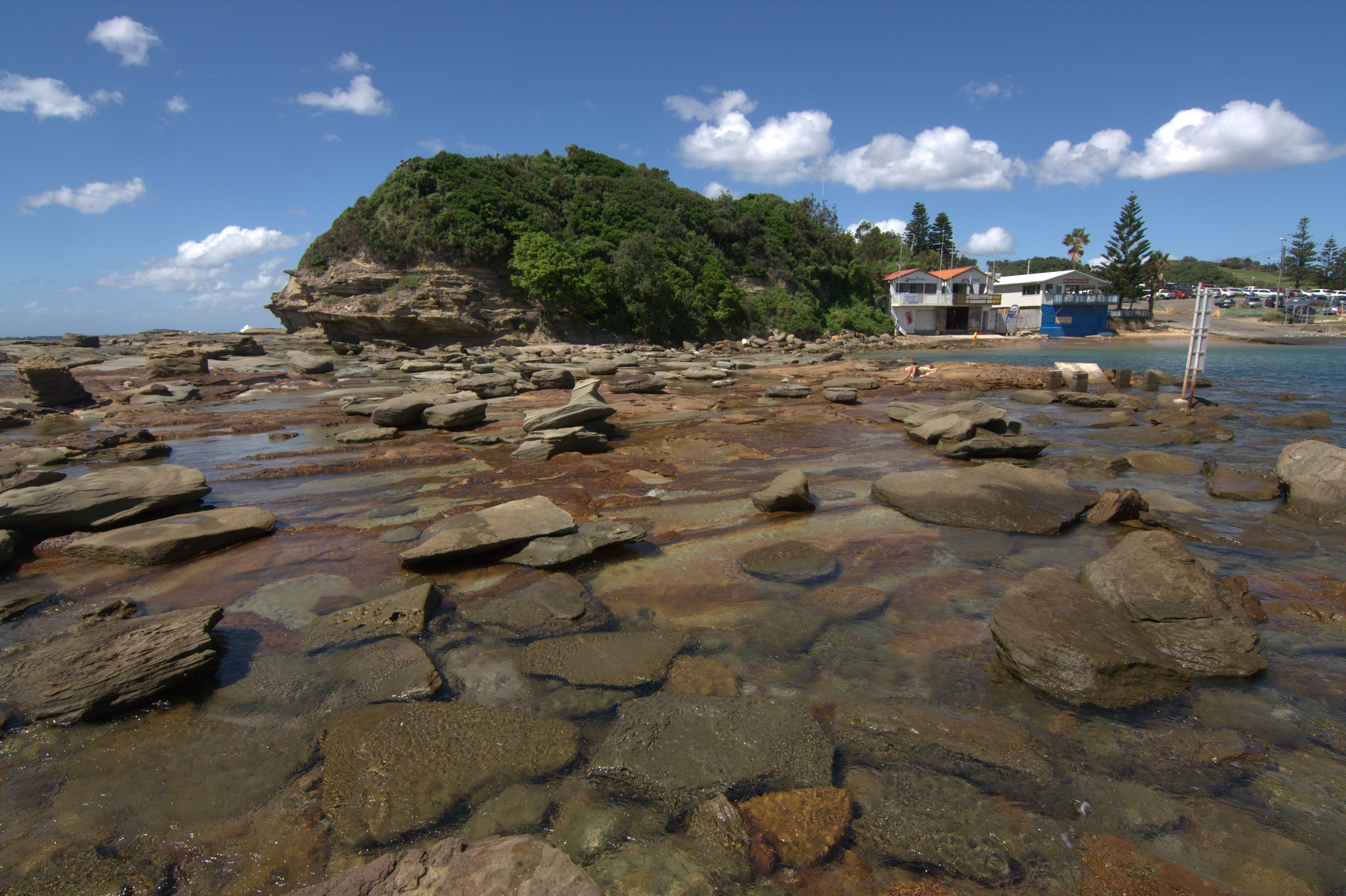 Terrigal NSW 2260, Australia